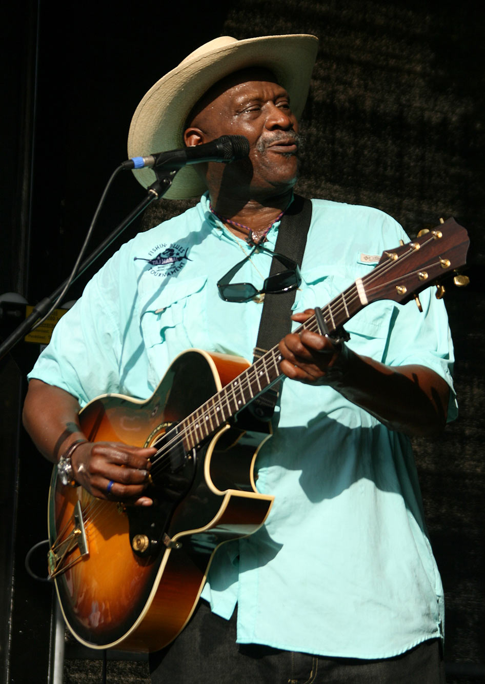 Blues musician Taj Mahal at the Museumsquartier in Vienna (Jazz-Fest Wien)